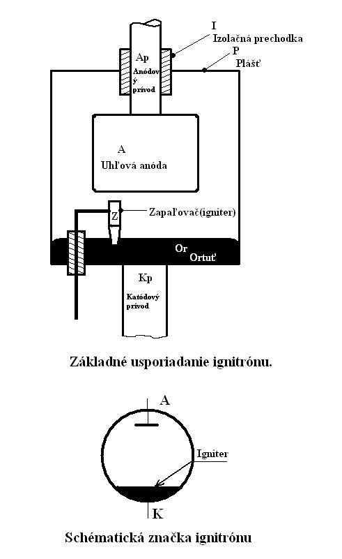 Ignitron